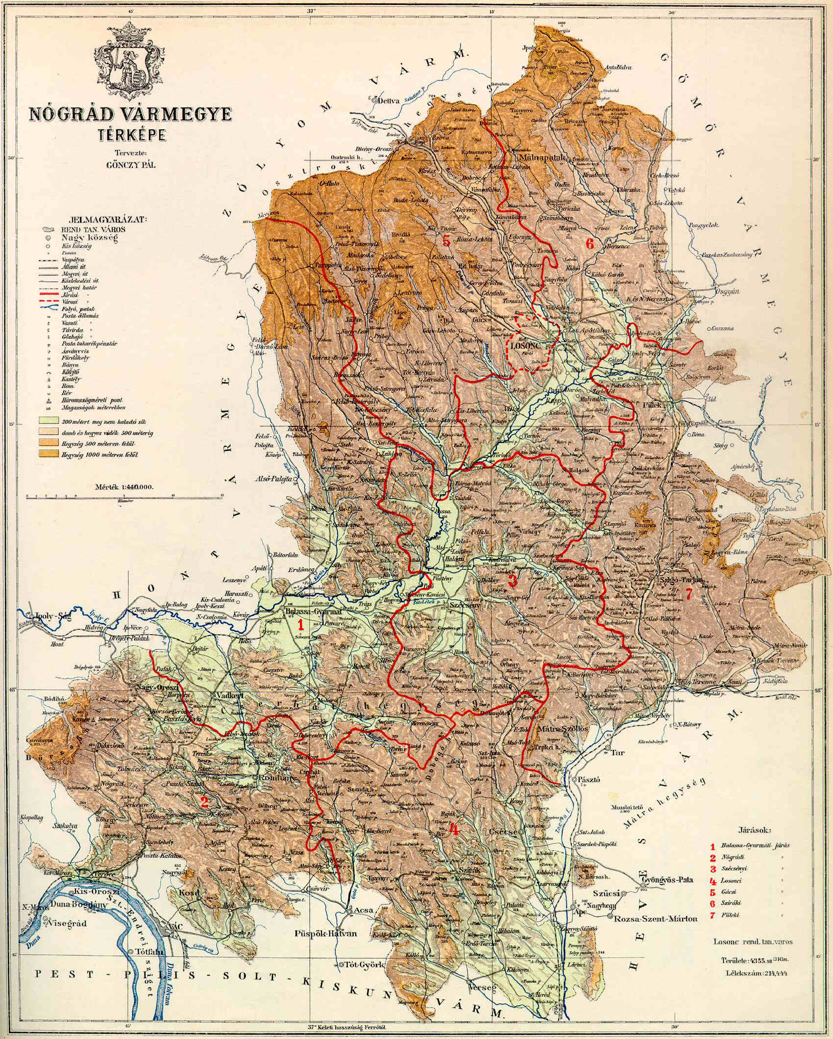 County of Nógrád in the pre-Trianon Kingdom of Hungary. Komitat Nógrád w Królestwie Węgier przed traktatem w Trianon.